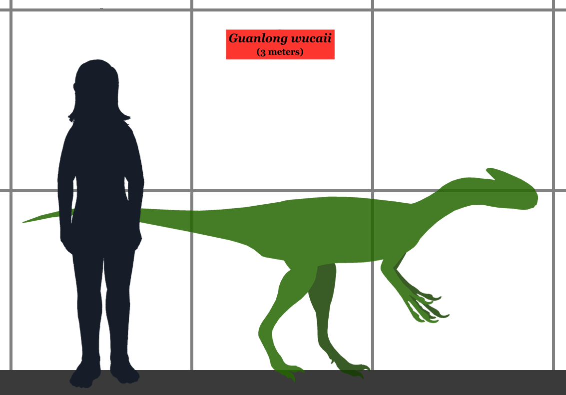 Size comparison between the tyrannosauroid dinosaur Guanlong wucaii (3 meters) and a human.